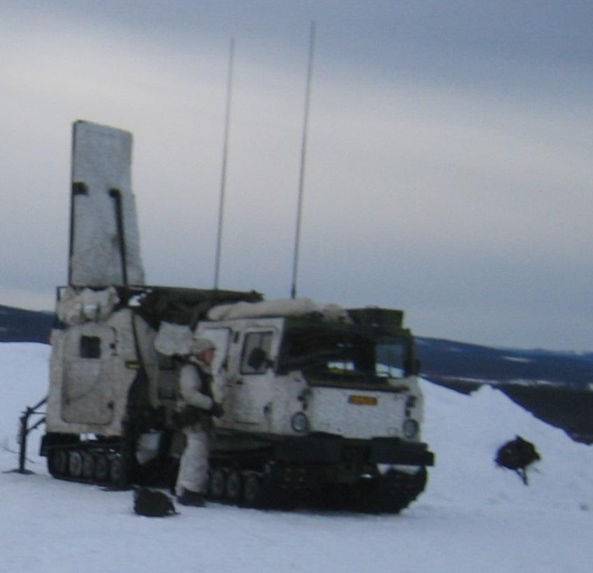 This picture is taken by me. The picture is blurry in order to let the person seen on this picture be kept private, and to hide the registration number on the APC.